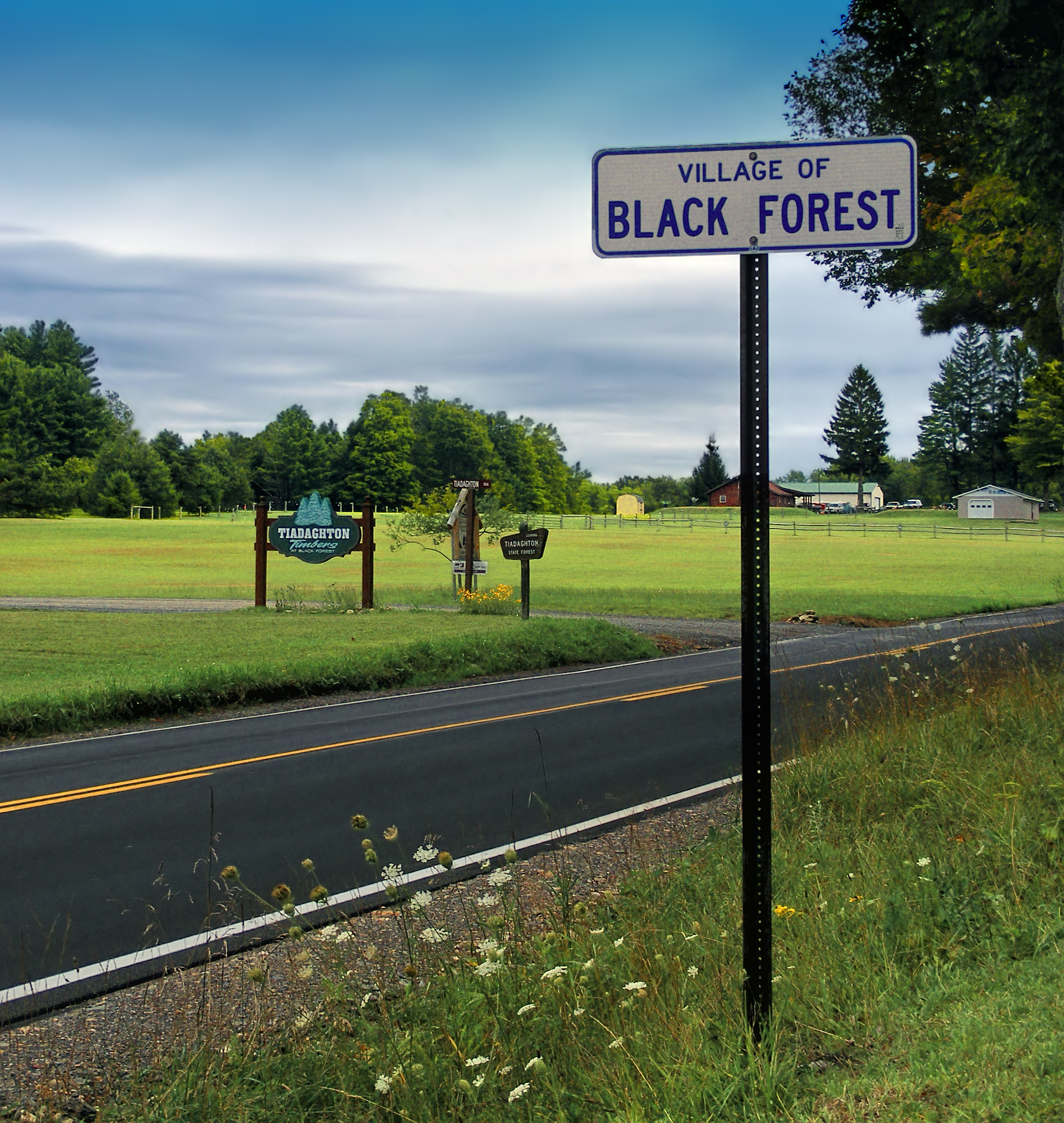 Signage, Route 44, Lycoming County, at the village (hamlet, actually) of Black Forest. Surrounded by miles of state forest, this tiny community is among the very few populated areas along Route 44 between Waterville and Coudersport.